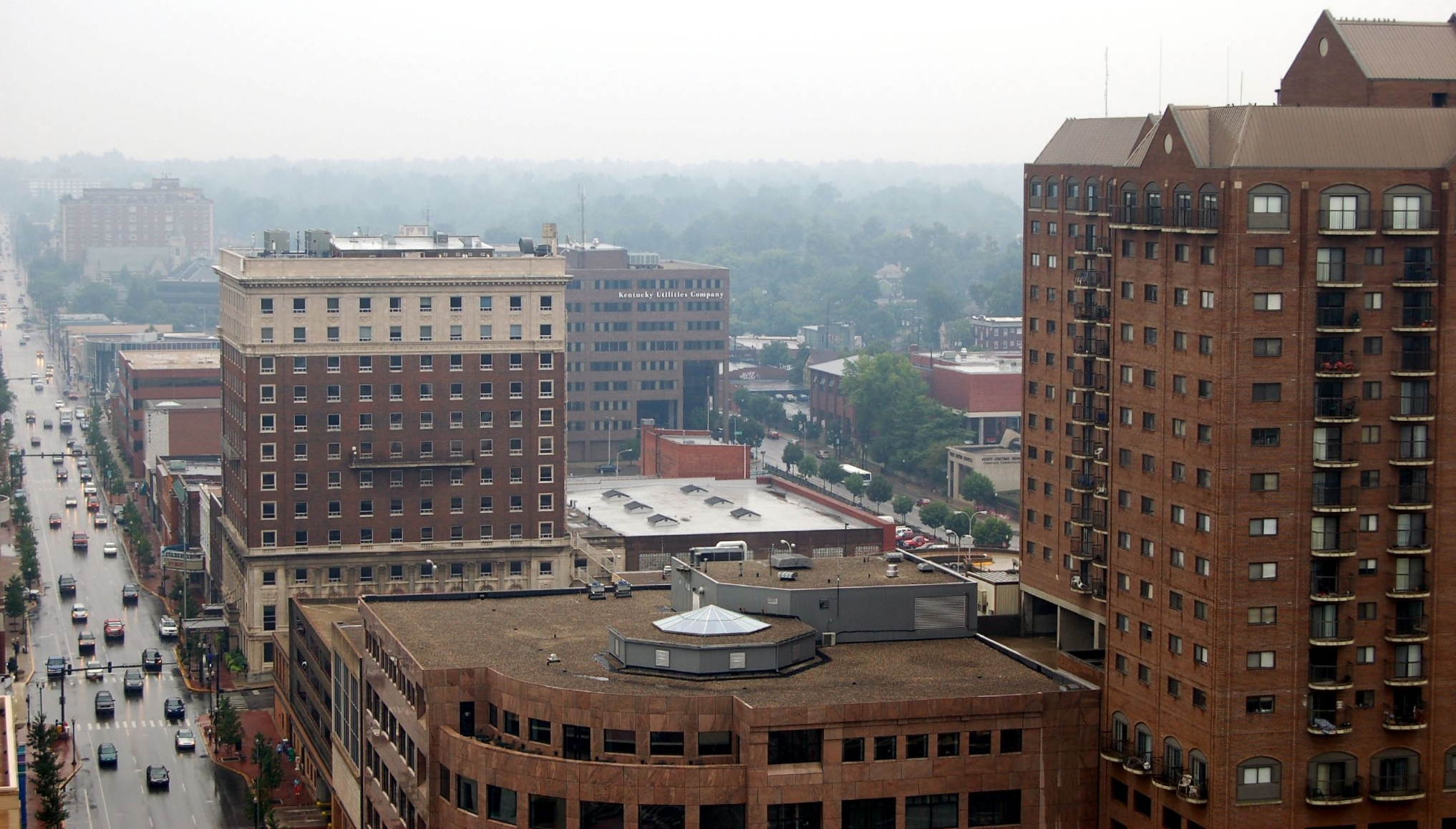 It rained in Lexington today, so I took the opportunity to hop up on the roof of my building and snap a few shots. To the left is Main St.